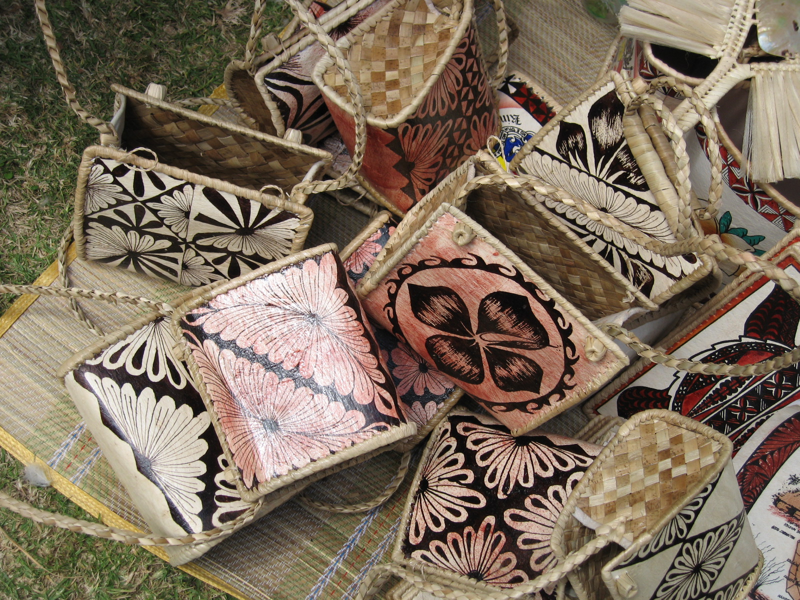 A selection of bags for sale at one of the stalls at Pasifika